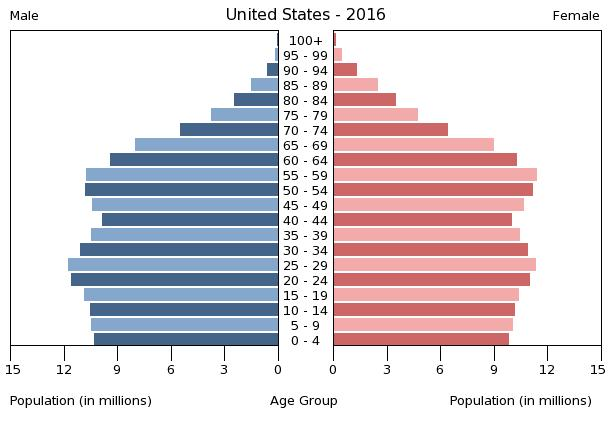 The population pyramid of the United States illustrates the age and sex structure of population and may provide insights about political and social stability, as well as economic development. The population is distributed along the horizontal axis, with males shown on the left and females on the right. The male and female populations are broken down into 5-year age groups represented as horizontal bars along the vertical axis, with the youngest age groups at the bottom and the oldest at the top. The shape of the population pyramid gradually evolves over time based on fertility, mortality, and international migration trends.